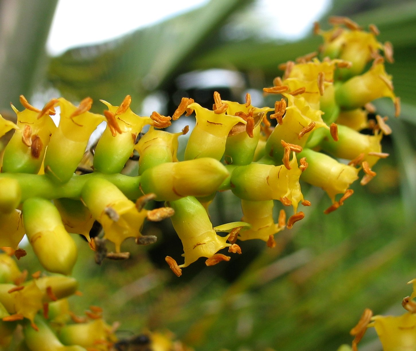 Loulu or Loulu hiwa Arecaceae Endemic to the Hawaiian Islands Oʻahu (Cultivated)